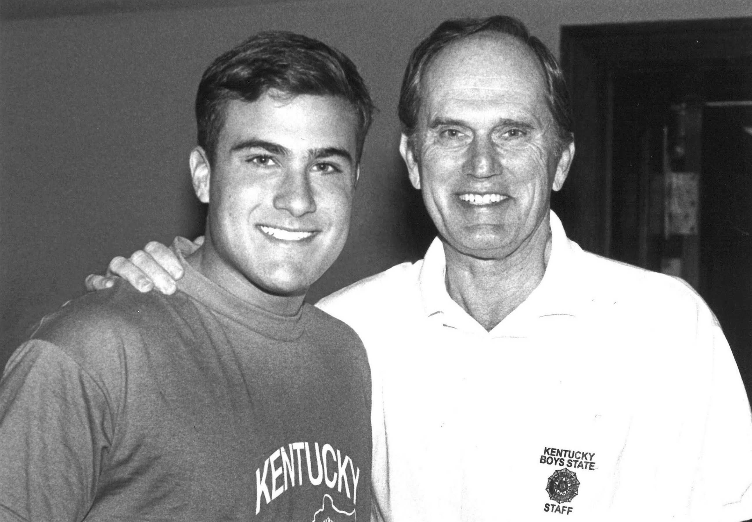 Nate Morris with former Kentucky Gov. Brereton Jones at Boys State in 1998.